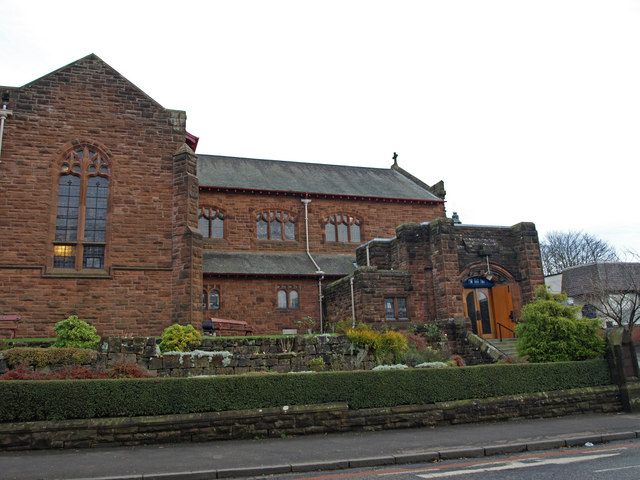 St. Pauls Church of Scotland, Strathblane Road, Milngavie